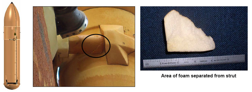 A piece of insulation foam came off a bracket which held an oxygen line in place on the external tank ET-119 for STS-121. The left image shows the position of the bracket on the external tank, the middle image shows the crack in the insulation and the right image shows the piece of insulation that came off.